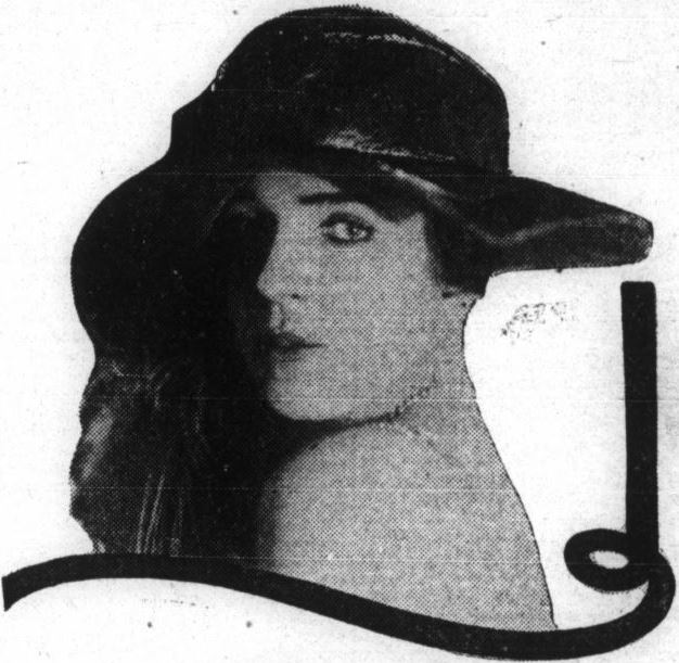 American actress Renie Riano (1899 – 1971), on page 5 of the April 12, 1923 Variety, which noted that she she was a hit in the Music Box Revue and had sailed for a show in London.